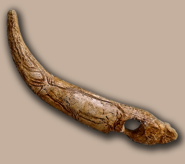 Perforated branch of deer stag with deer representation of the Upper Magdalenian level of the Cave del Castillo (Puente Viesgo, Cantabria, Spain).